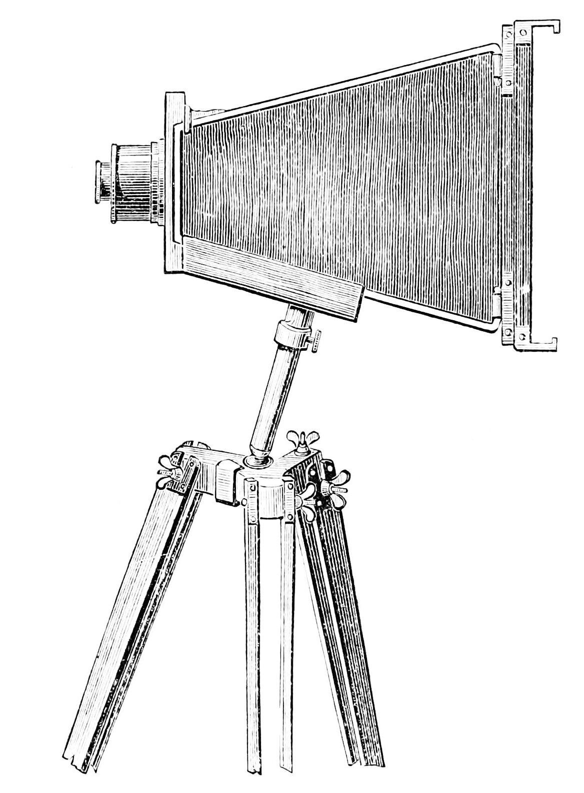 New type of camera and photo process